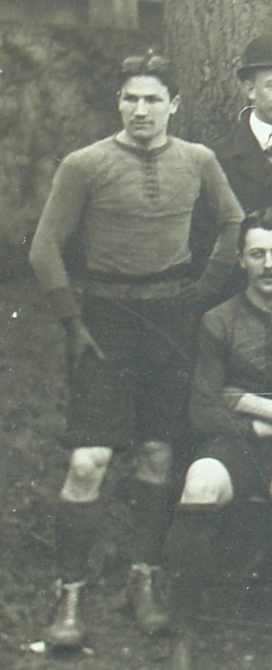 Emile Lesieur, Stade Français, winner of French Rugby Championship 1908 source : private collection